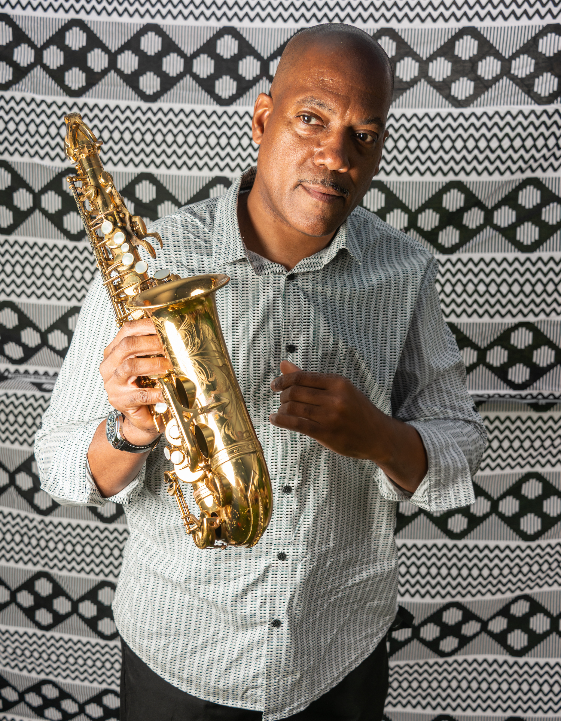 Jazz saxaphonist Eric Person at Black Lunch Table photo booth and info booth at Staten Island Museum's Fences Show